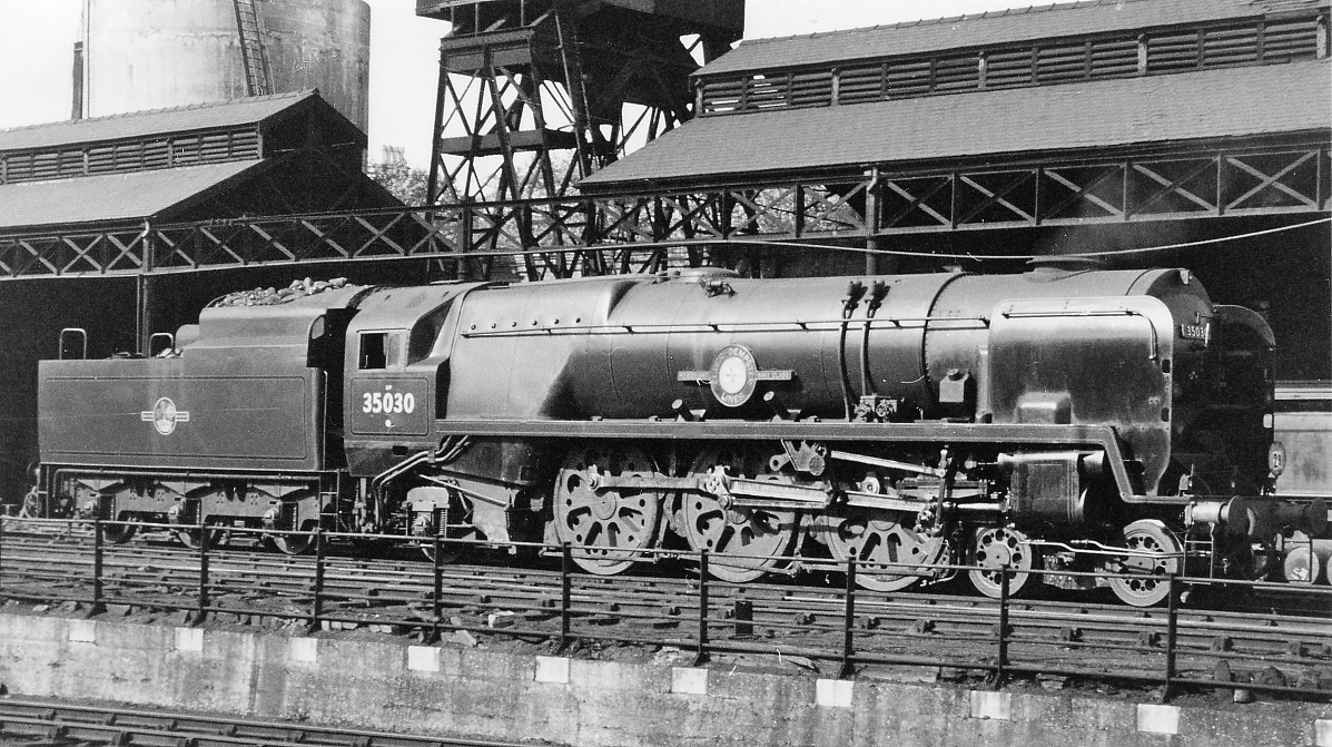 Rebuilt 'Merchant Navy' at Bournemouth Locomotive Depot. As seen from the west end of the long Down platform at Bournemouth Central station: SR rebuilt Bulleid Pacific No. 35030 'Elder Dempster Lines' (built 4/49, rebuilt 4/58, withdrawn 7/67 - the last).